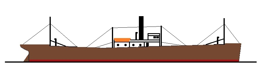 "Fredrikstad-type" cargo ship